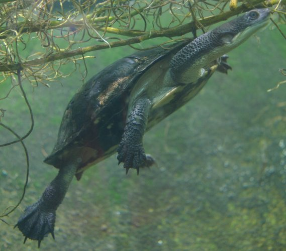 Australian Snake-necked Turtle (Chelodina longicollis), National Zoo, Washington DC